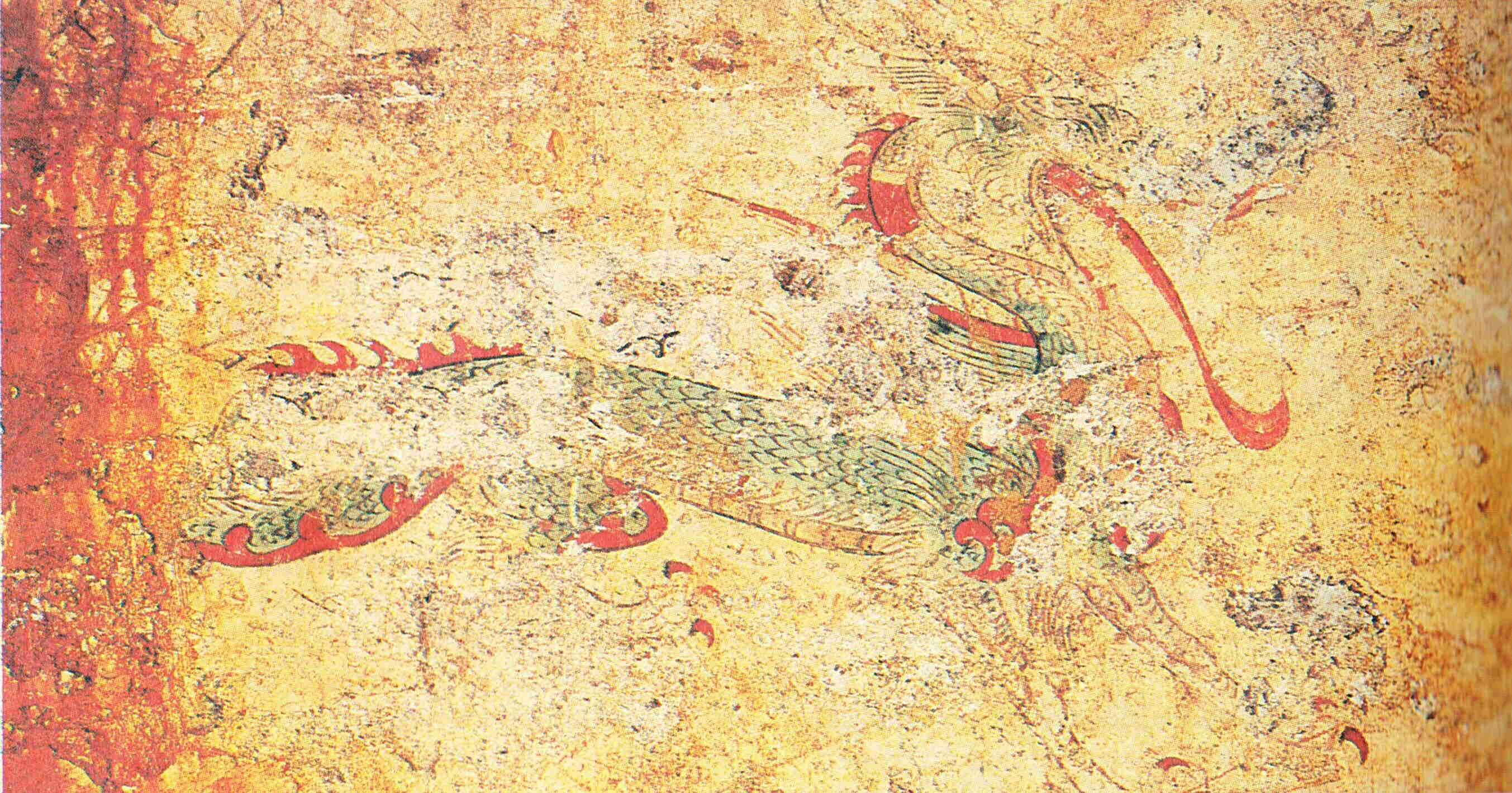 Blue dragon within Takamatsuzuka tomb